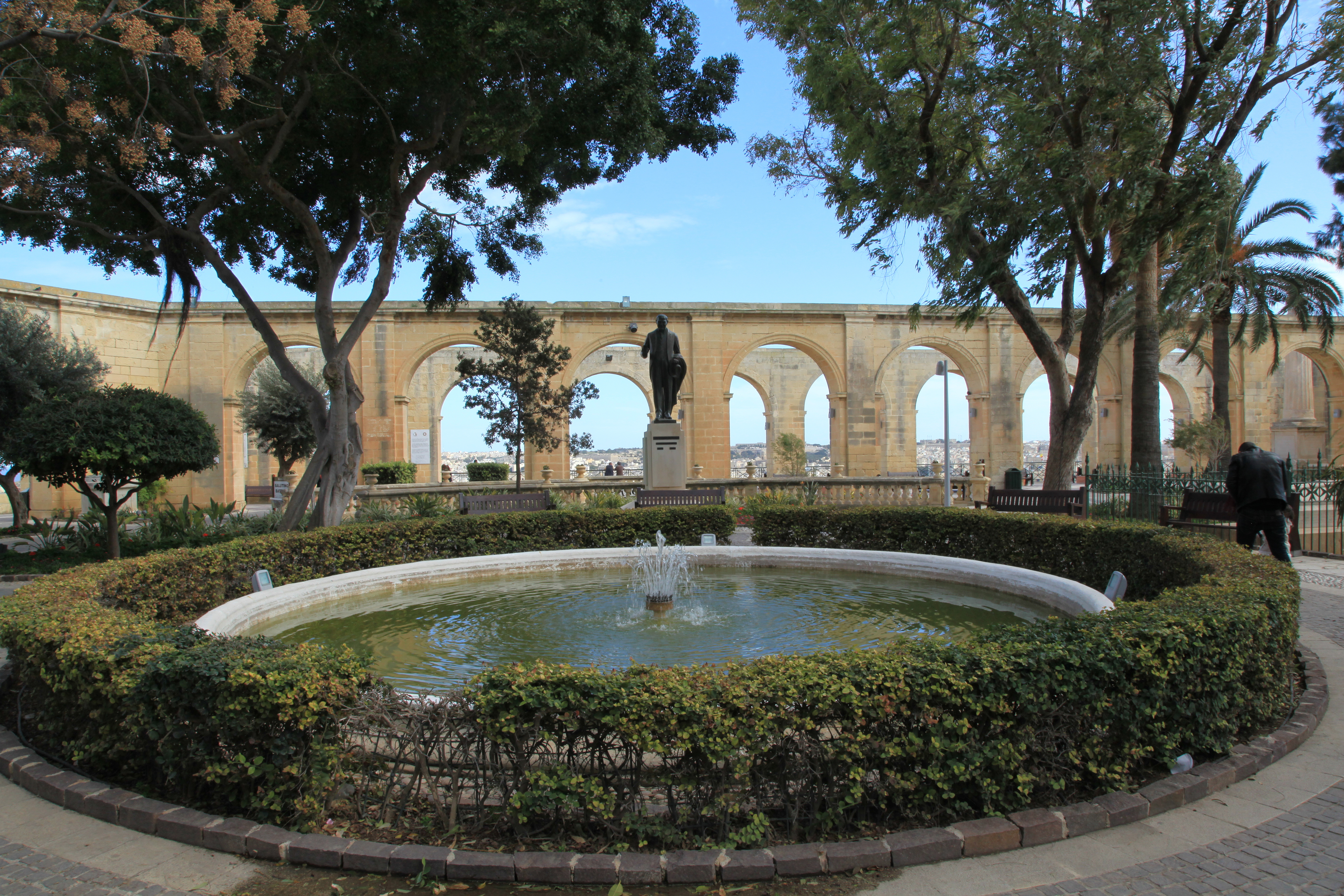 Upper Barrakka Gardens, Pjazza Kastilja in Valletta, Malta